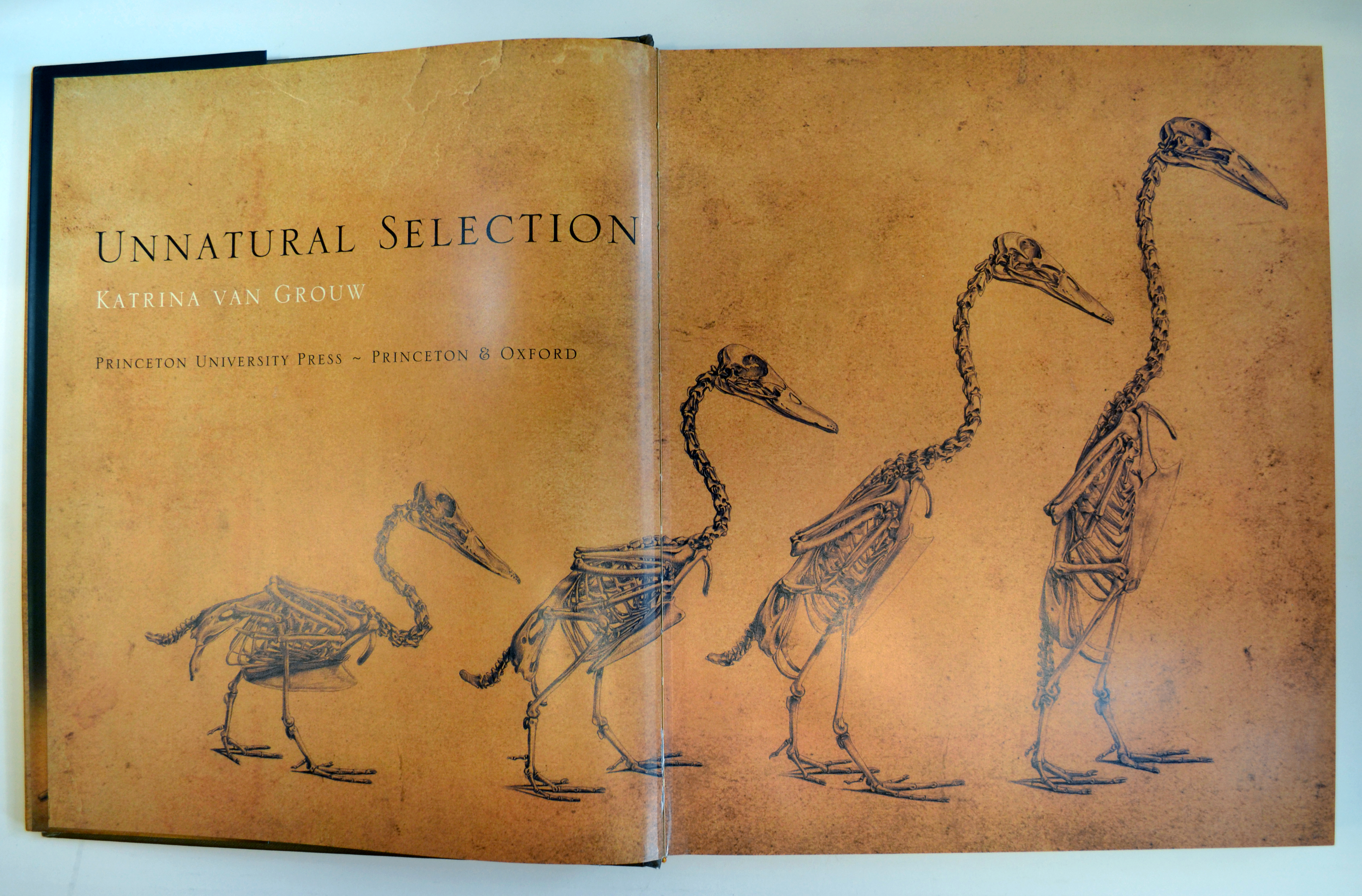 The title page from Unnatural Selection by Katrina van Grouw. The image, showing the changes in posture to create the Indian Runner Duck from its wild ancestor, is called 'The Ascent of Mallard'! Van Grouw designed the book as well as producing the text and drawings.